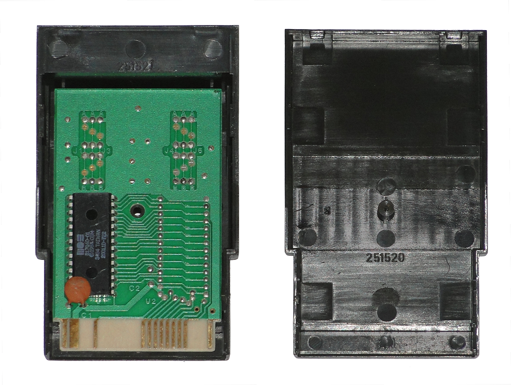 Cartridge halves for Commodore Plus 4